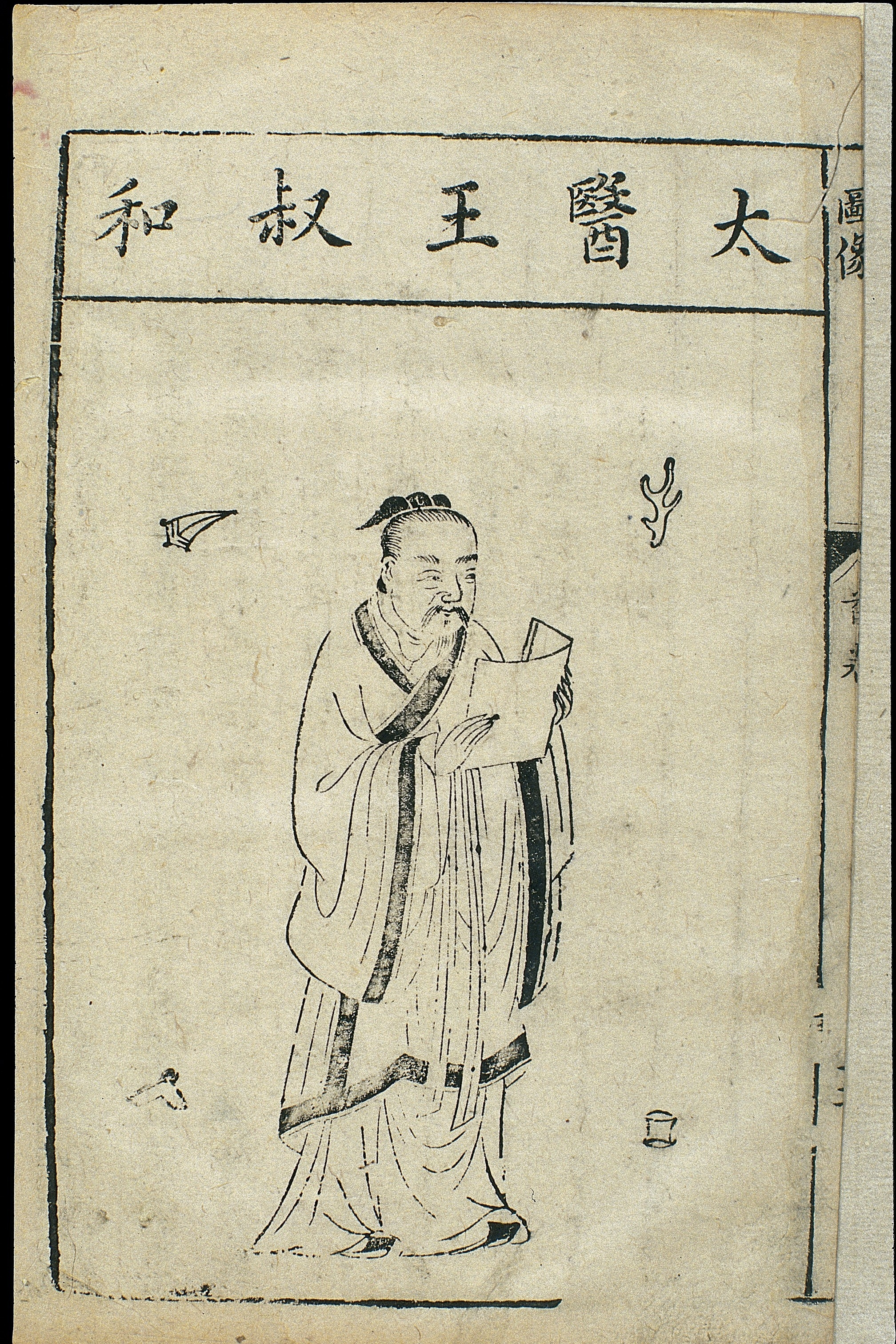 One of a series of woodcuts of illustrious physicians and legendary founders of Chinese medicine from an edition of Bencao mengquan (Introduction to the Pharmacopoeia), engraved in the Wanli reign period of the Ming dynasty (1573-1620) -- Volume preface, 'Lidai mingyi hua xingshi' (Portraits and names of famous doctors through history). The images are attributed to a Tang (618-907) creator, Gan Bozong. The account in 'Portraits and Names of Famous Doctors through History' states: Wang Shuhe, a native of Gaoping (now Gaoping County, Shanxi Province), lived in the Western Jin period (265-316). A quiet man of vast learning, he was well-versed in the classics and in the arts of prescribing and pulse diagnosis. He was an excellent writer and composed Maijing (Pulse Canon, 10 volumes), Maijue (Secrets of the Pulses, 4 volumes), and Maifu (Ode on the Pulses, 1 volume). He recompiled and edited Zhang Zhongqing's famous classic Shanghan lun (Treatise on Cold Damage), which had become corrupt and disordered, preserving it for future generations.Woodcut By: Gan Bozong (Tang period, 618-907)